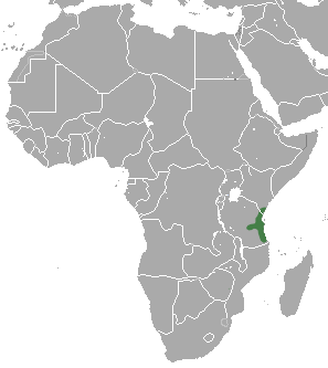 East African Little Collared Fruit Bat (Myonycteris relicta) range